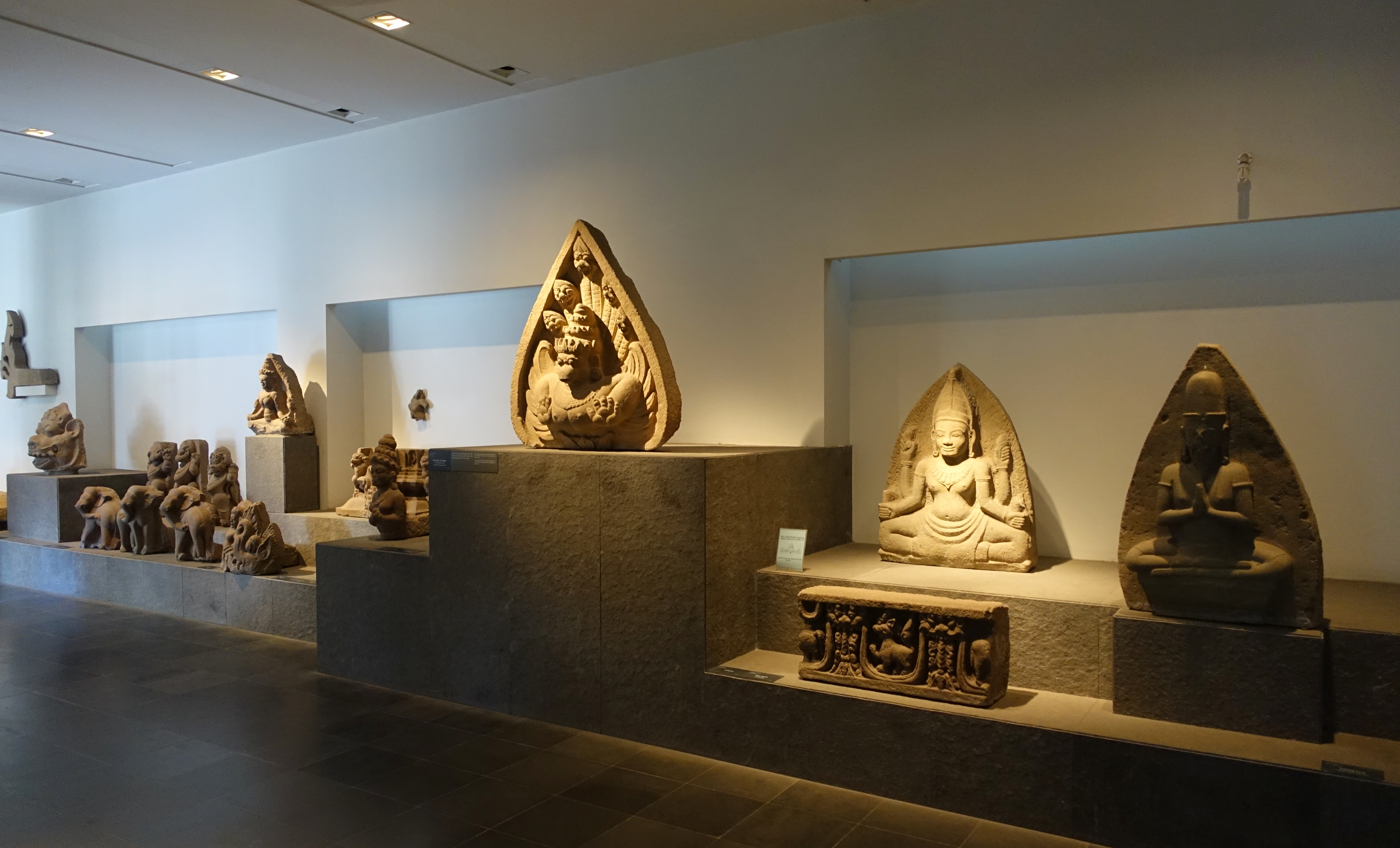 Exhibit in the Museum of Vietnamese History, Ho Chi Minh City, Vietnam. This work is old enough so that it is in the public domain.